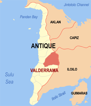 Map of Antique showing the location of Valderrama